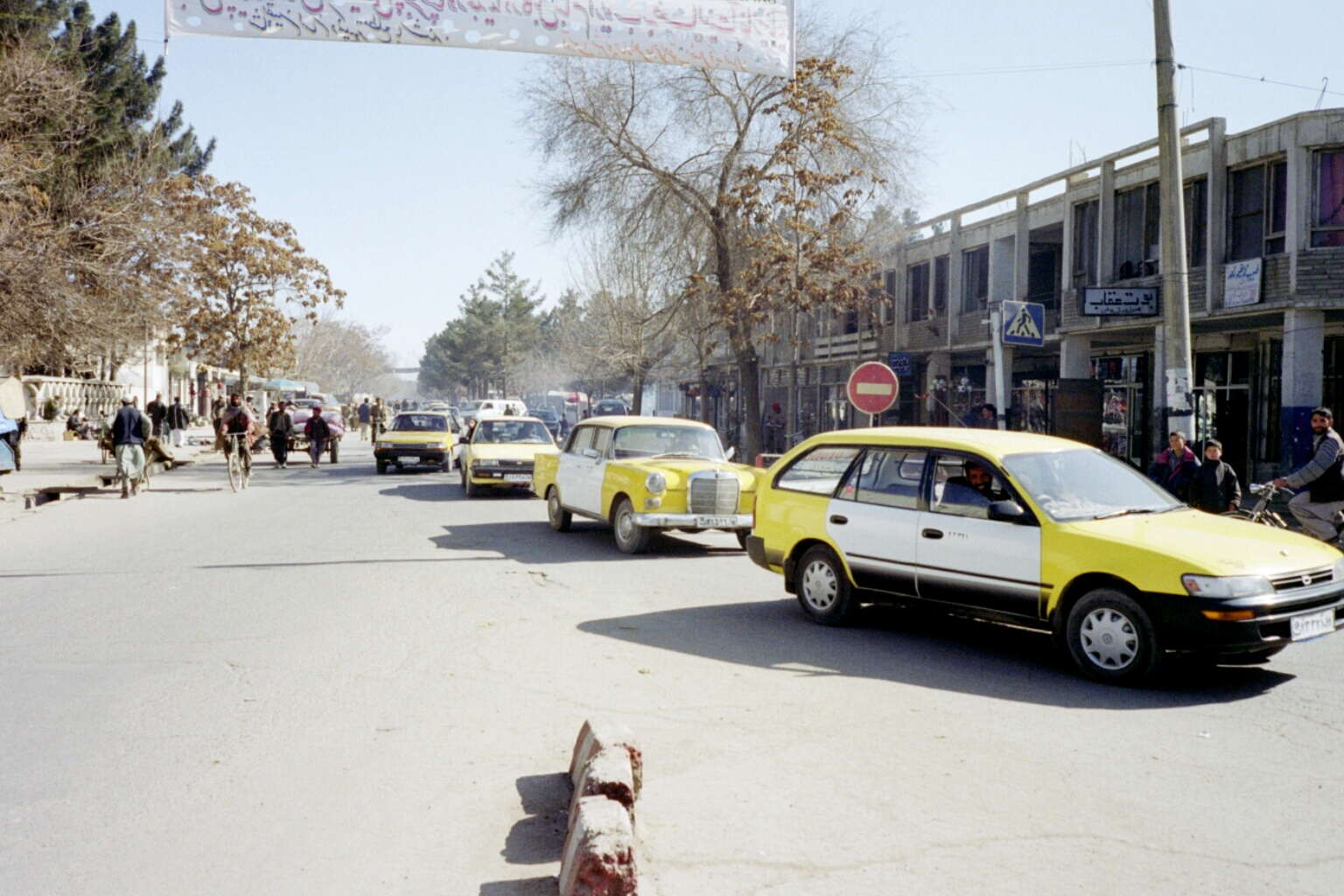 Group of taxicabs in Kabul, Afghanistan, on 12 Feb 2002, shortly after beginning of ISAF mission in Afghanistan